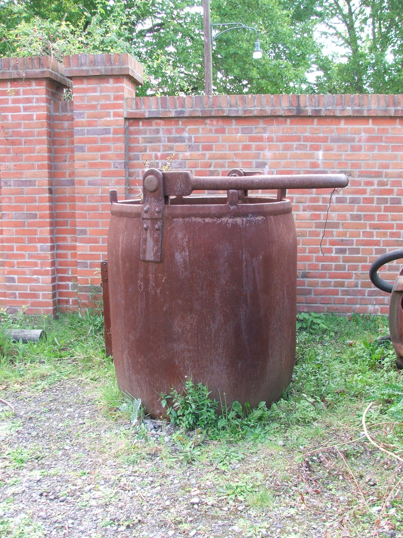 Kibble of the Hannover hardcoal mine in Bochum, North-Rhine-Westfalia, Germany.